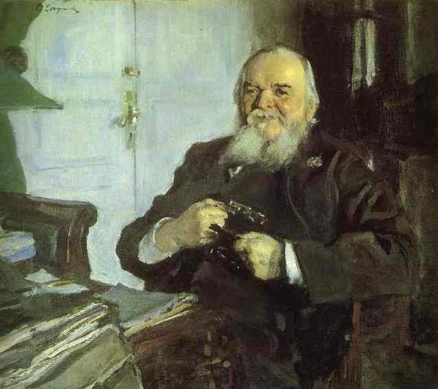 Portrait of Alexander Turchaninov. 1906. Oil on canvas. The Russian Museum, St. Petersburg, Russia.